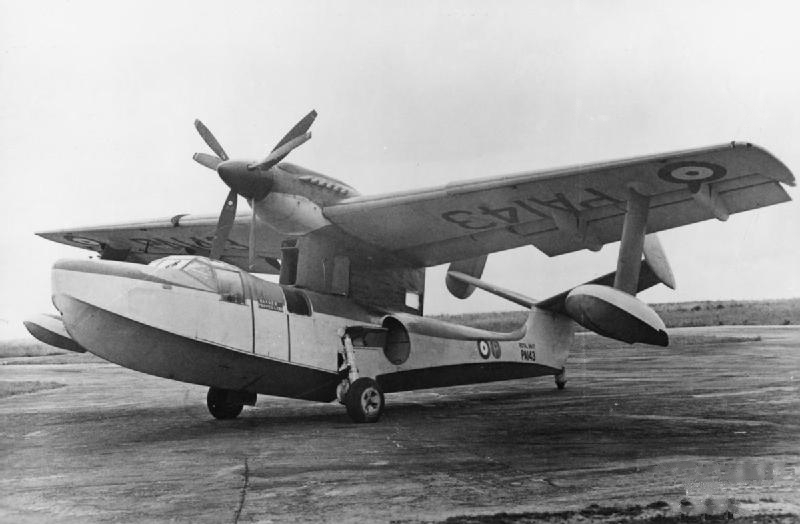 The Supermarine Seagull ASR.I prototype (serial PA143), in 1948.